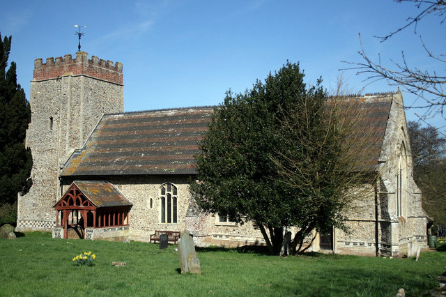 St Mary's parish church, Washbrook, Suffolk, seen from south-southeast